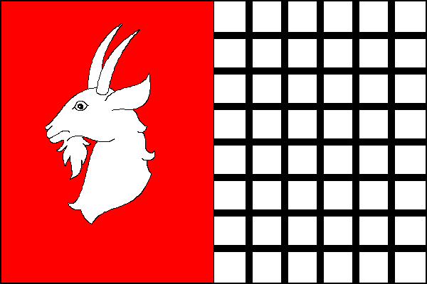 Municipal flag of Kožlí village, Havlíčkův Brod District, Czech Republic.